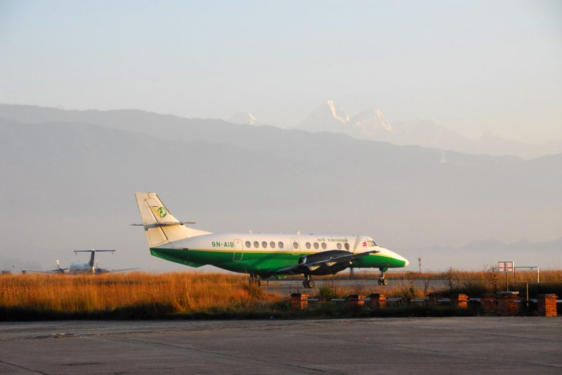 The British Aerospace Jetstream 41 registered 9N-AIB, in Yeti airlines livery.